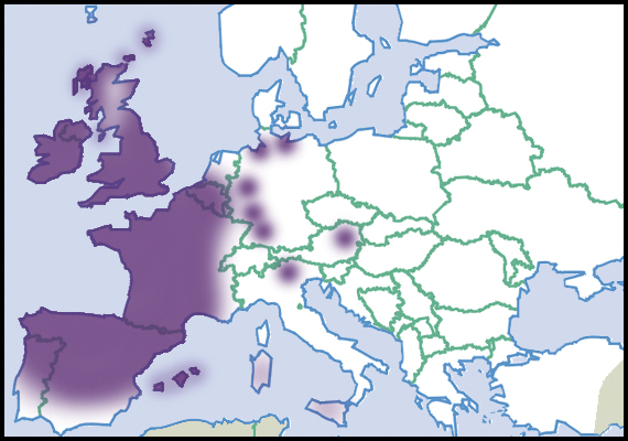 Milax gagates (Draparnaud, 1801). Distribution in Europe, scientific state of knowledge of 2012. Source description in English. Light colour indicated rare occurrences or regions where the species could eventually be expected to occur. Dark colour indicated relatively reliable occurrences, as well as regions where the species was expected to occur, and where the species was not known to be extremely rare. Dark colour indications were not necessarily based on published records. Species summary in AnimalBase